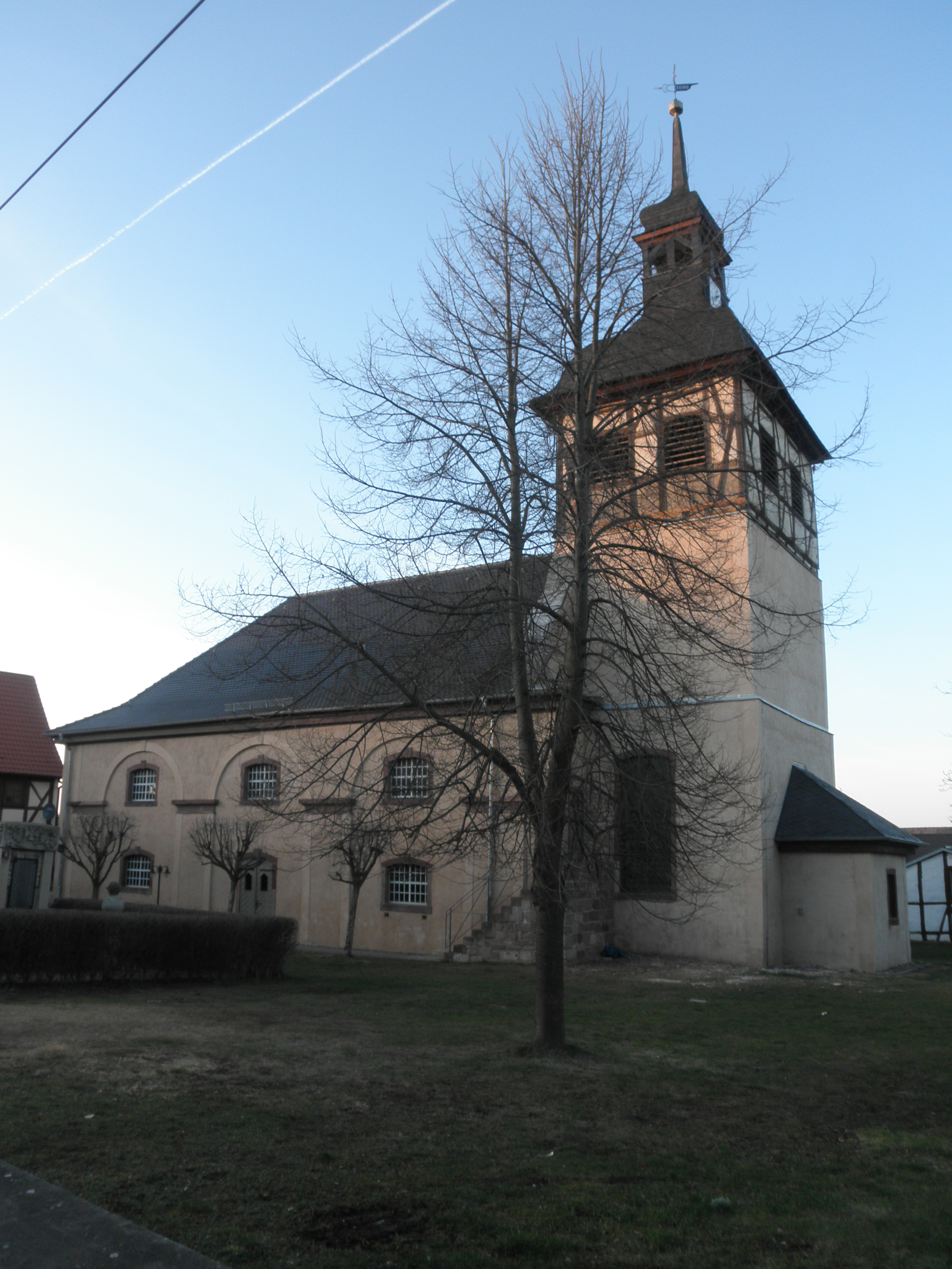 Church in Uthleben in Thuringia